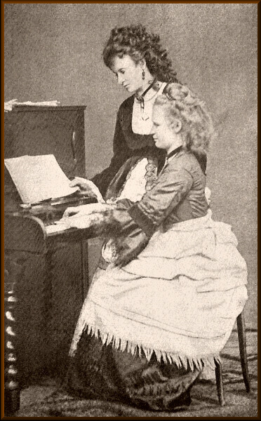 Sisters Josefína Čermáková (staying) and Anna Čermáková (sitting) - wife of the Czech Composer Antonín Dvořák (1841-1904)